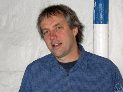 Dave Bayer, American mathematician, at the conference on Computational Algebraic Geometry and Applications - On the occasion of André Galligo's 60th birthday, held in Nizza in June 2006.